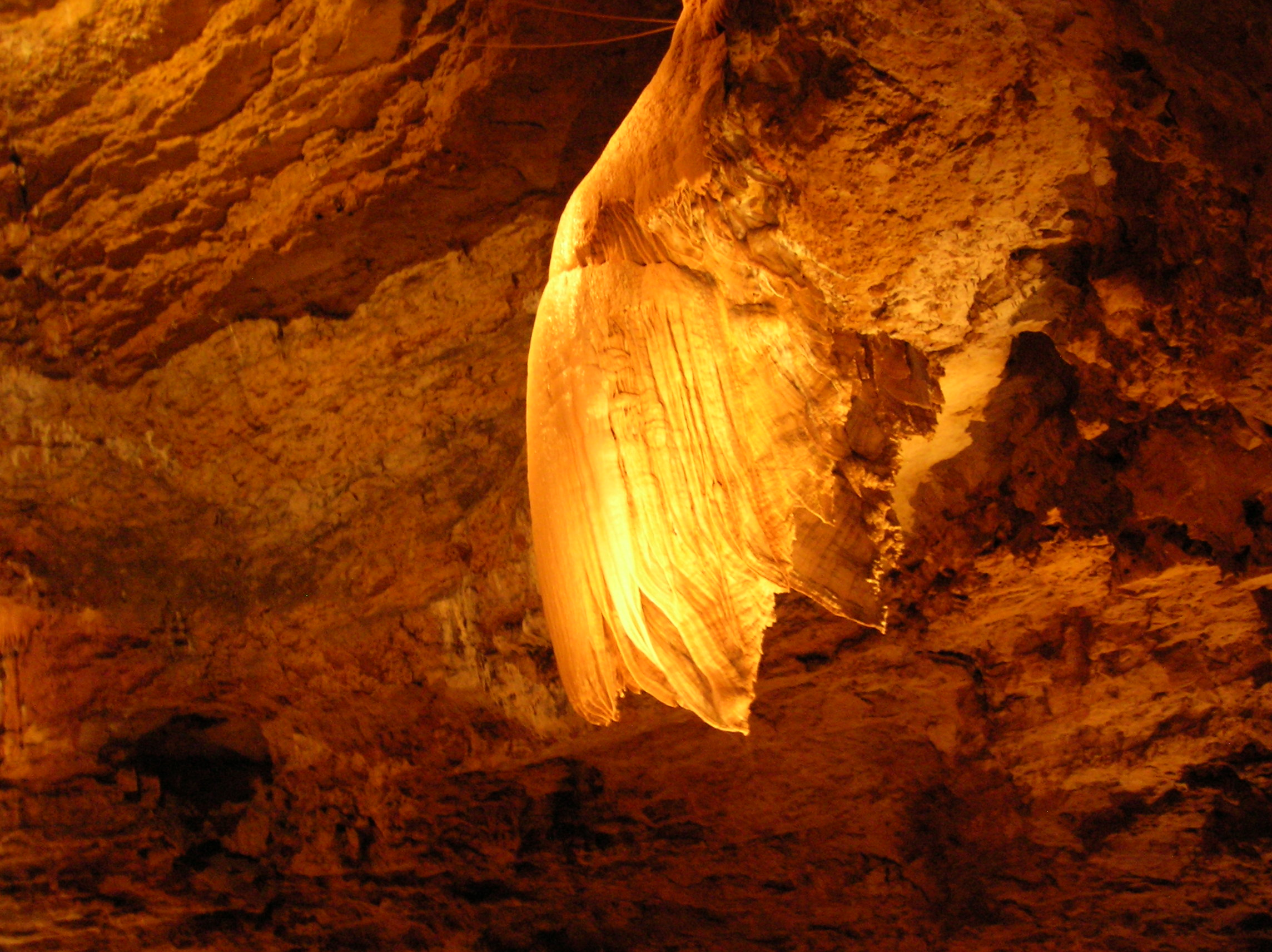 Concretion in the Cave of Proumeyssac (Périgord, France) (NB:photo taken without flash in order to respect the place)